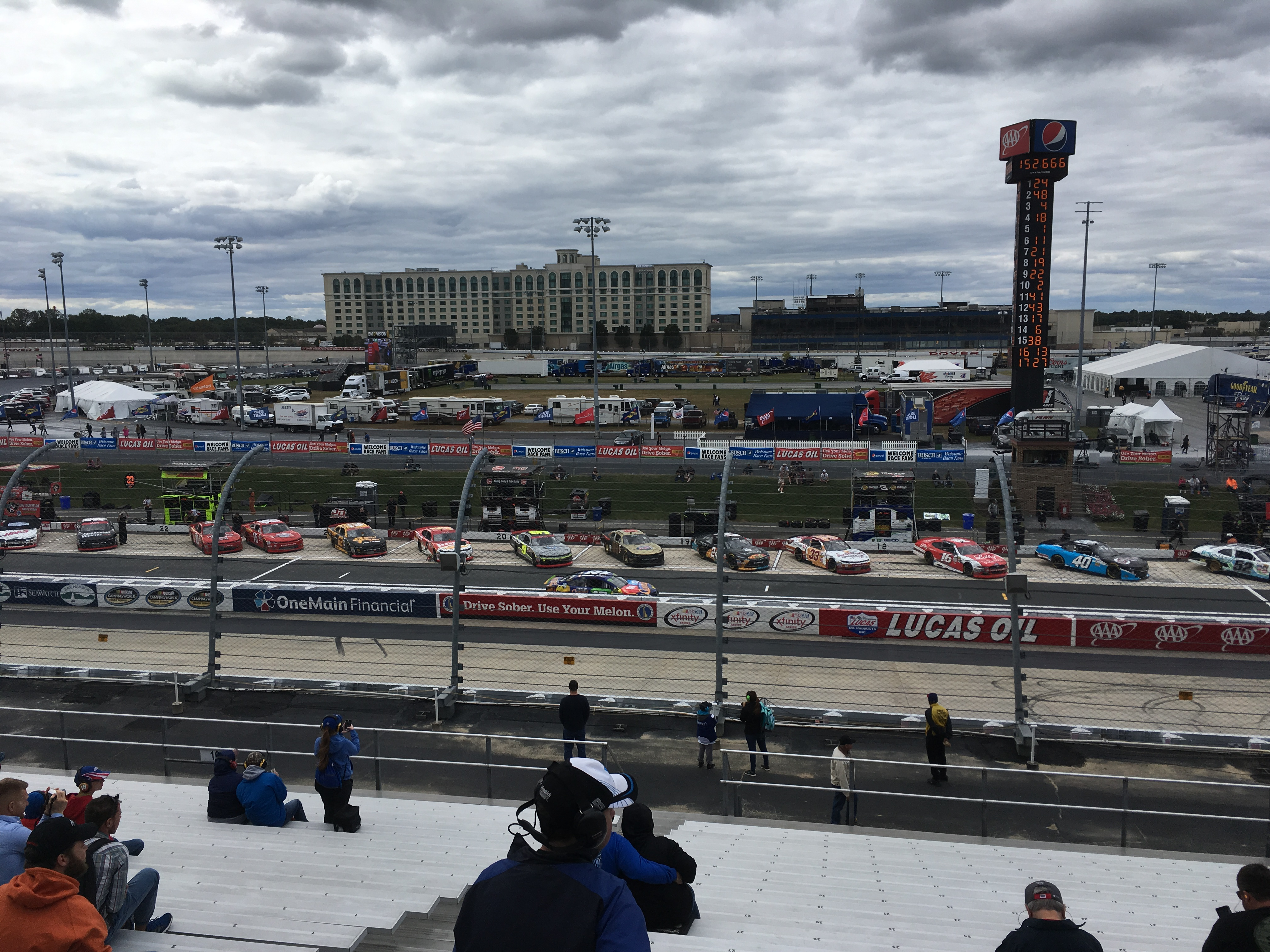 Final practice for the 2017 Apache Warrior 400 at Dover International Speedway viewed from the frontstretch. Kyle Busch (#18) drives by on pit road.